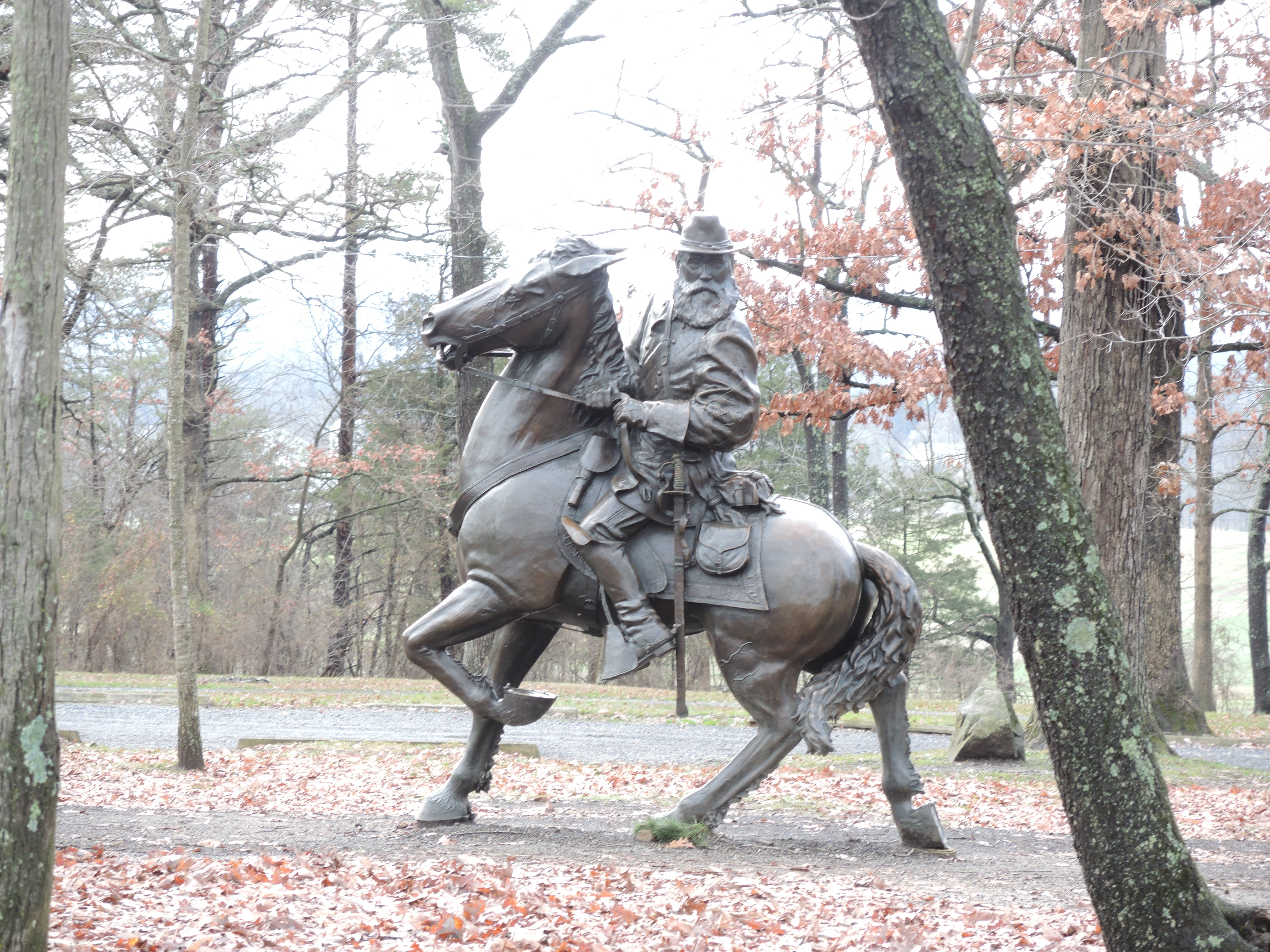 Bronze equestrian statue of Confederate General James Longstreet, commander of the First Corps of the Army of Northern Virginia led by General Robert E. Lee